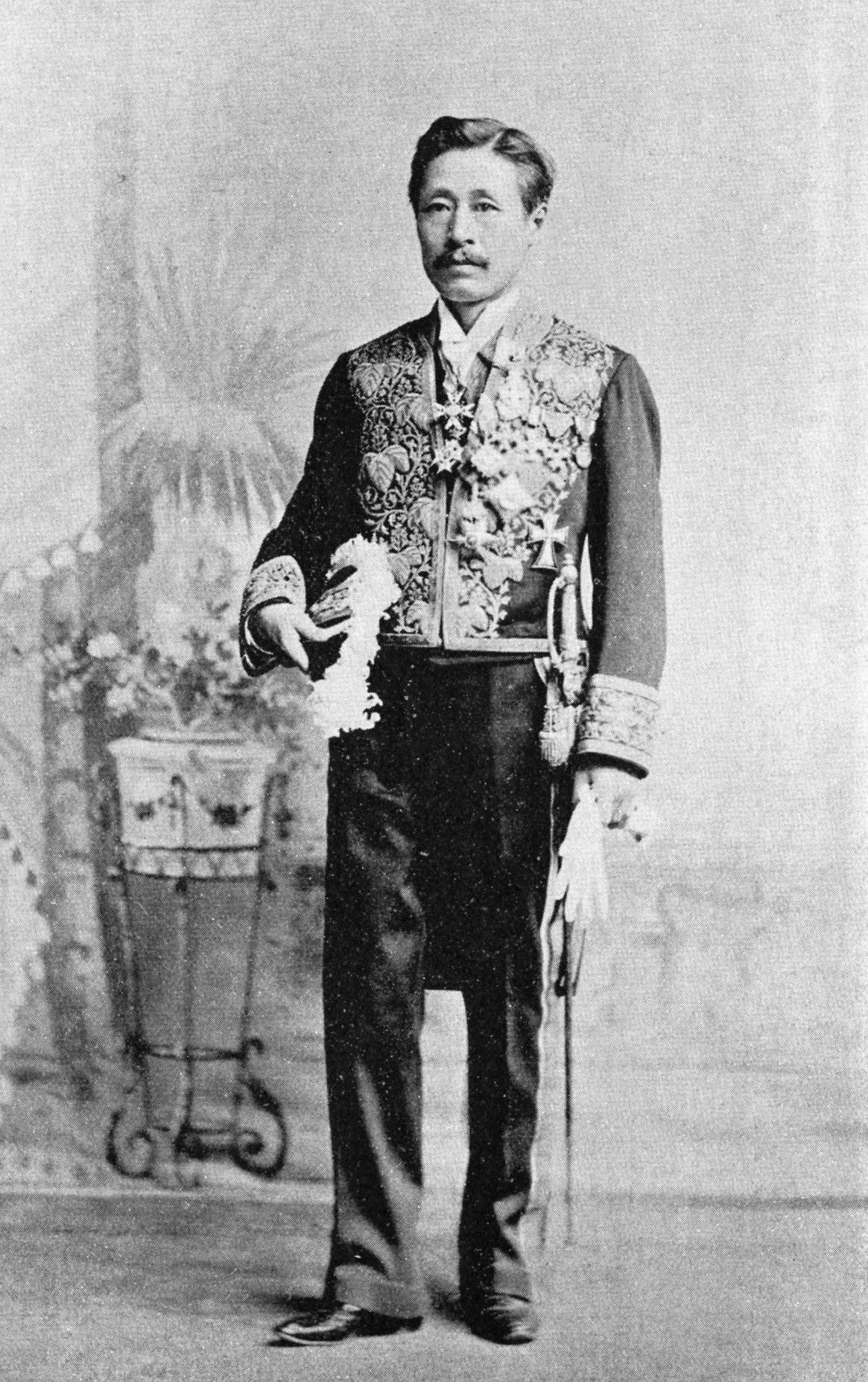 Akabane_Shirō, Envoy extra-Ordinary and Minister Plenipotentiary